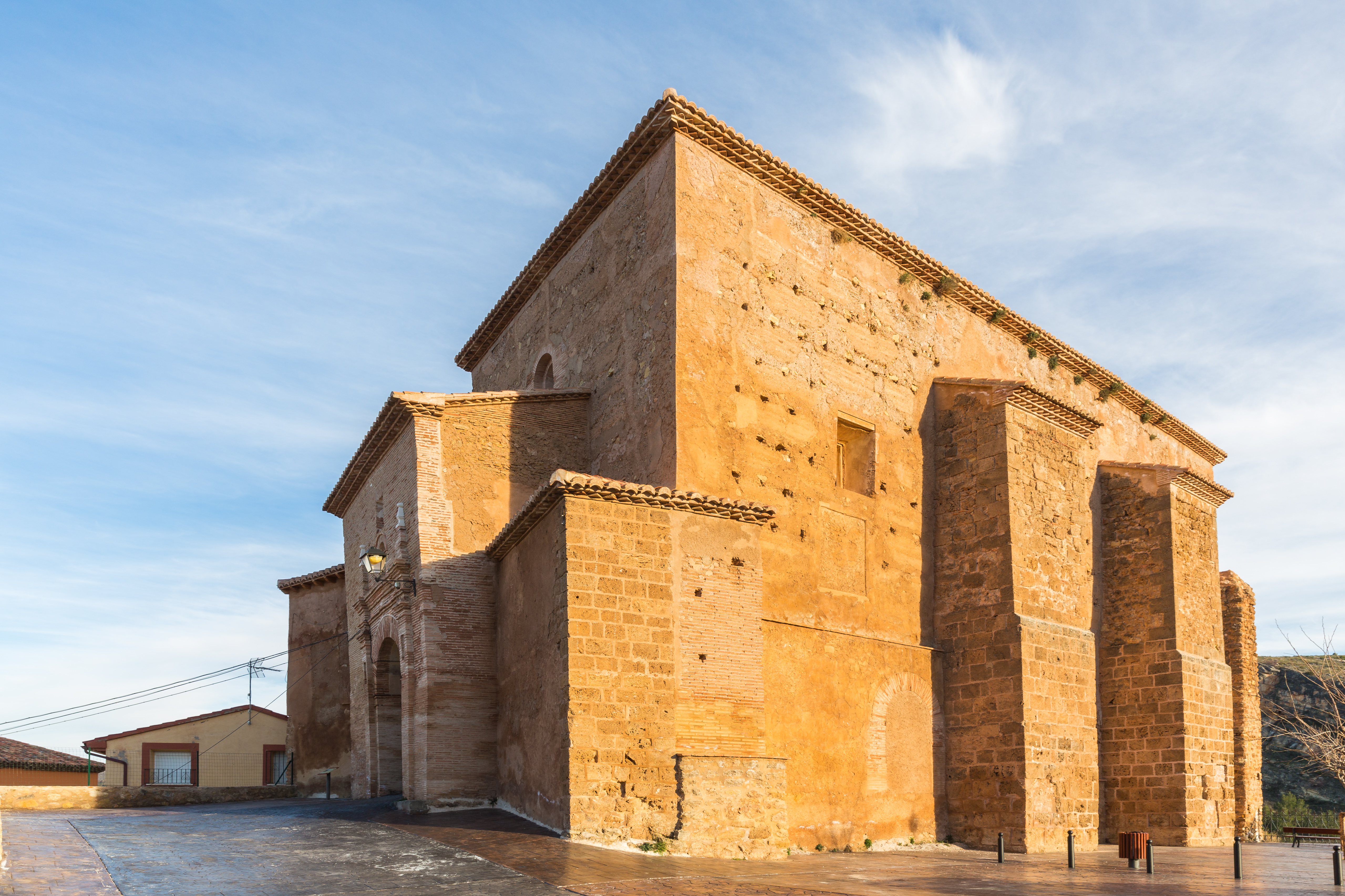 Church of St Julian, Nuévalos, Zaragoza, Spain